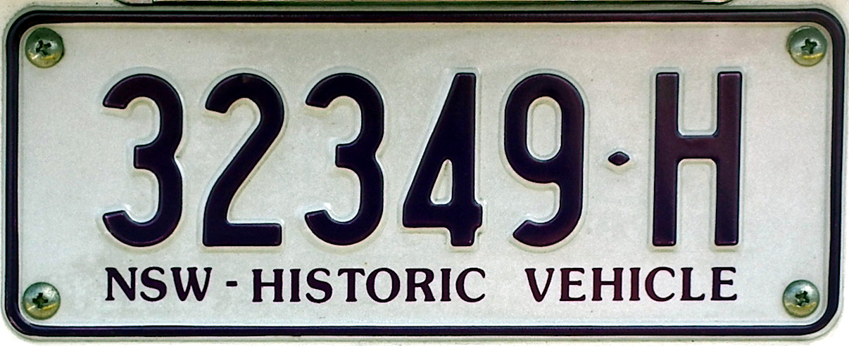 2005 New South Wales registration plate 32349♦H historic vehicle